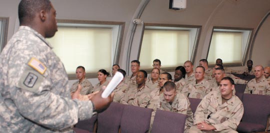 A trooper from the JTF Behavioral Science Consultation Team briefs troopers on communications techniques to be more effective in handling day to day duties inside Camp Delta.